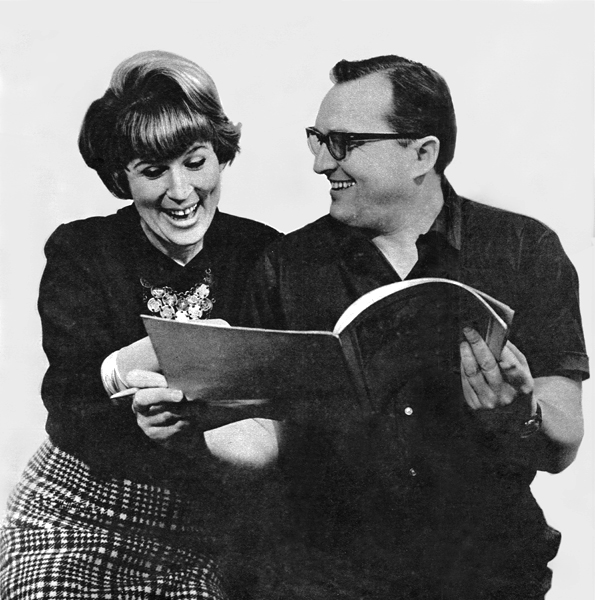 Actress Marta Stebnicka and painter Ludwik Jerzy Kern from Cracow